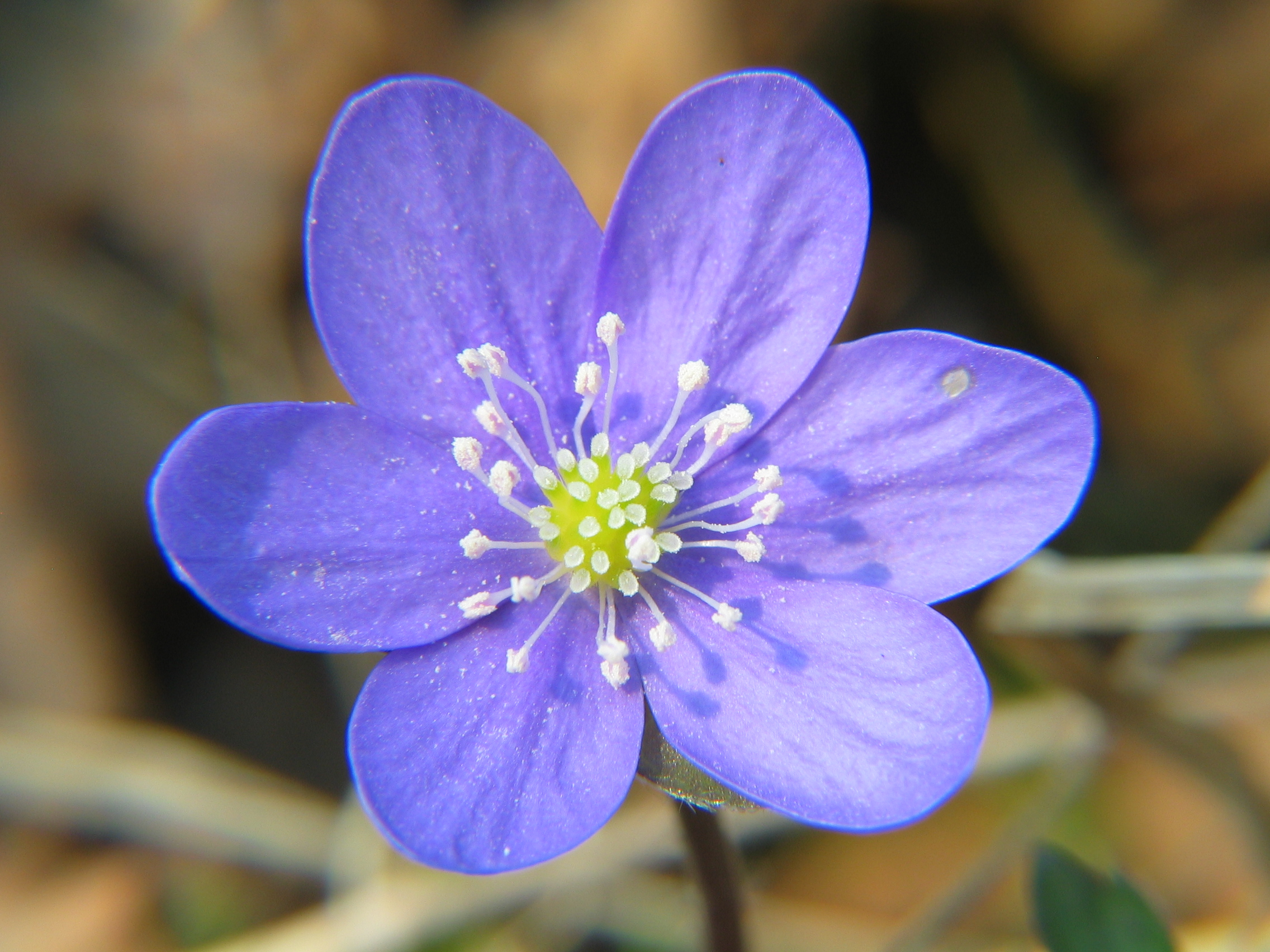 Hepatica nobilis, photo taken in Sweden